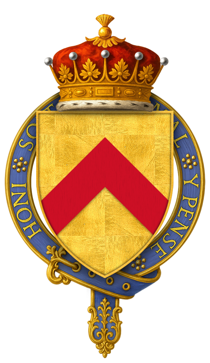 Coat of Arms of Sir Hugh de Stafford, 2nd Earl of Stafford, KG “Hugh Second Earl of Stafford… Arms: Or, a chevron Gules.” BELTZ, George Frederick, Memorials of the Order of the Garter from Its Foundation to the Present Time, London: William Pickering, 1841.